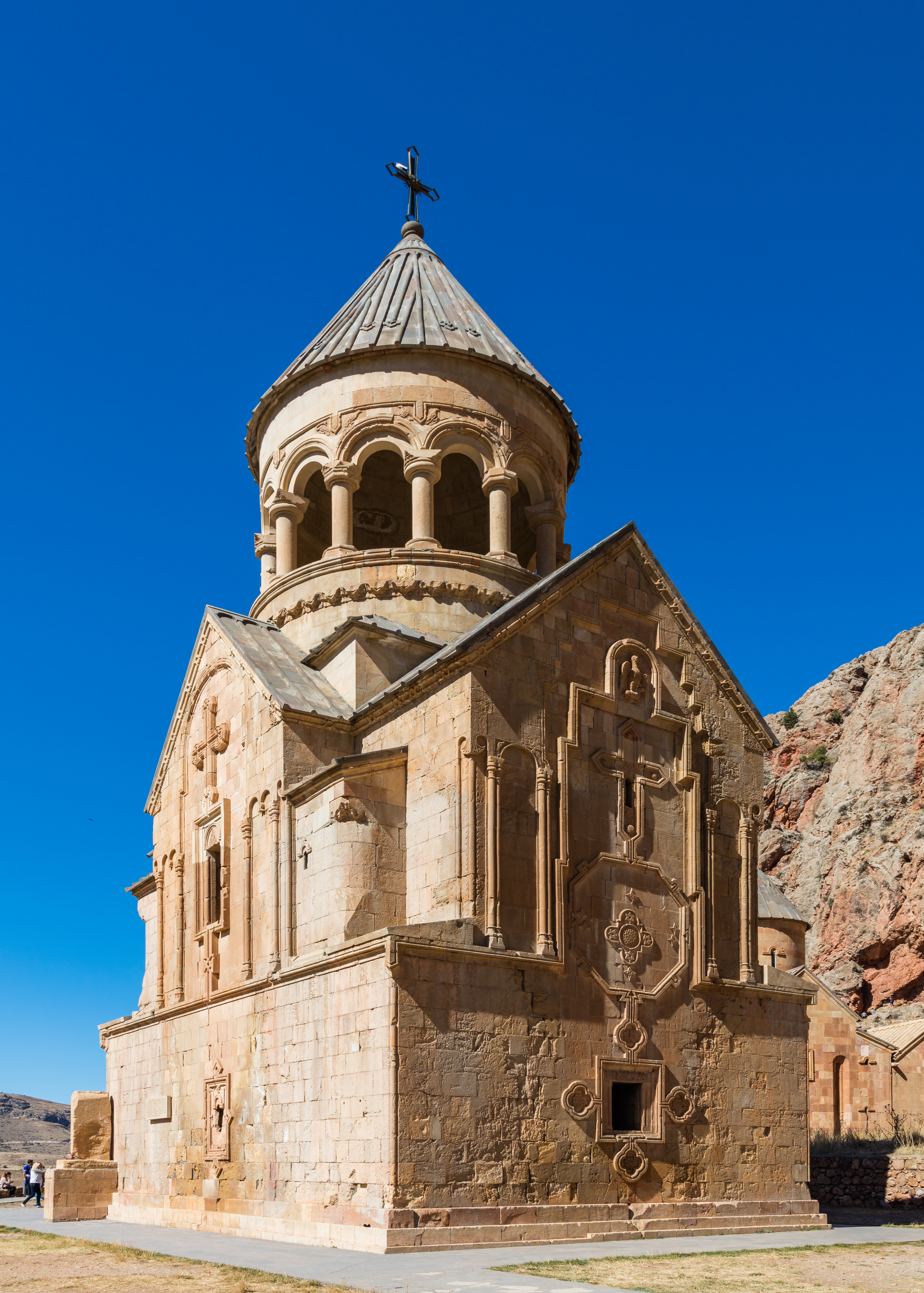 Noravank Monastery, Armenia